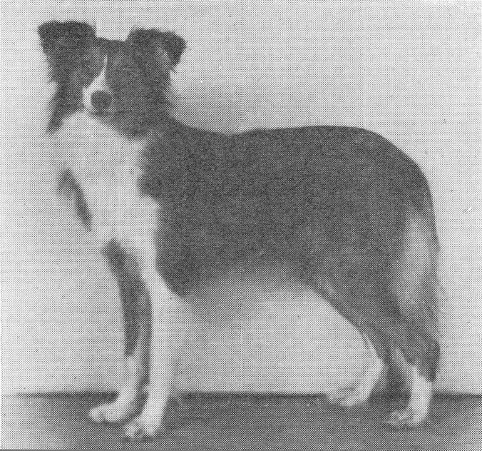 A Shetland Sheepdog from 1932 in Sweden, named Kilravock Mignonette, owned by mr and mrs Haufmann in Stockholm.